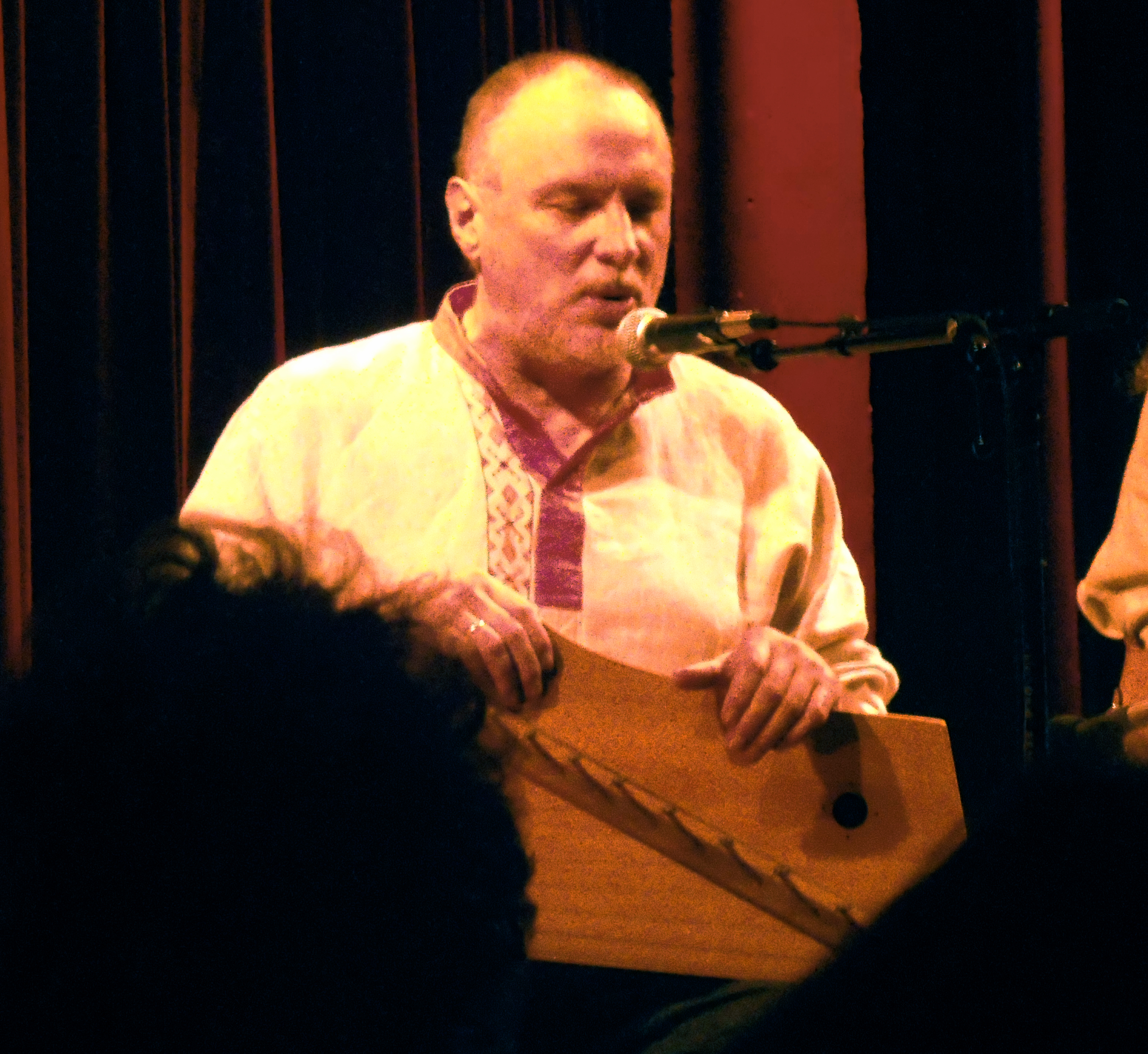 Sergey Starostin, concert with Zhyli-Byli, Treibhaus Innsbruck 2011